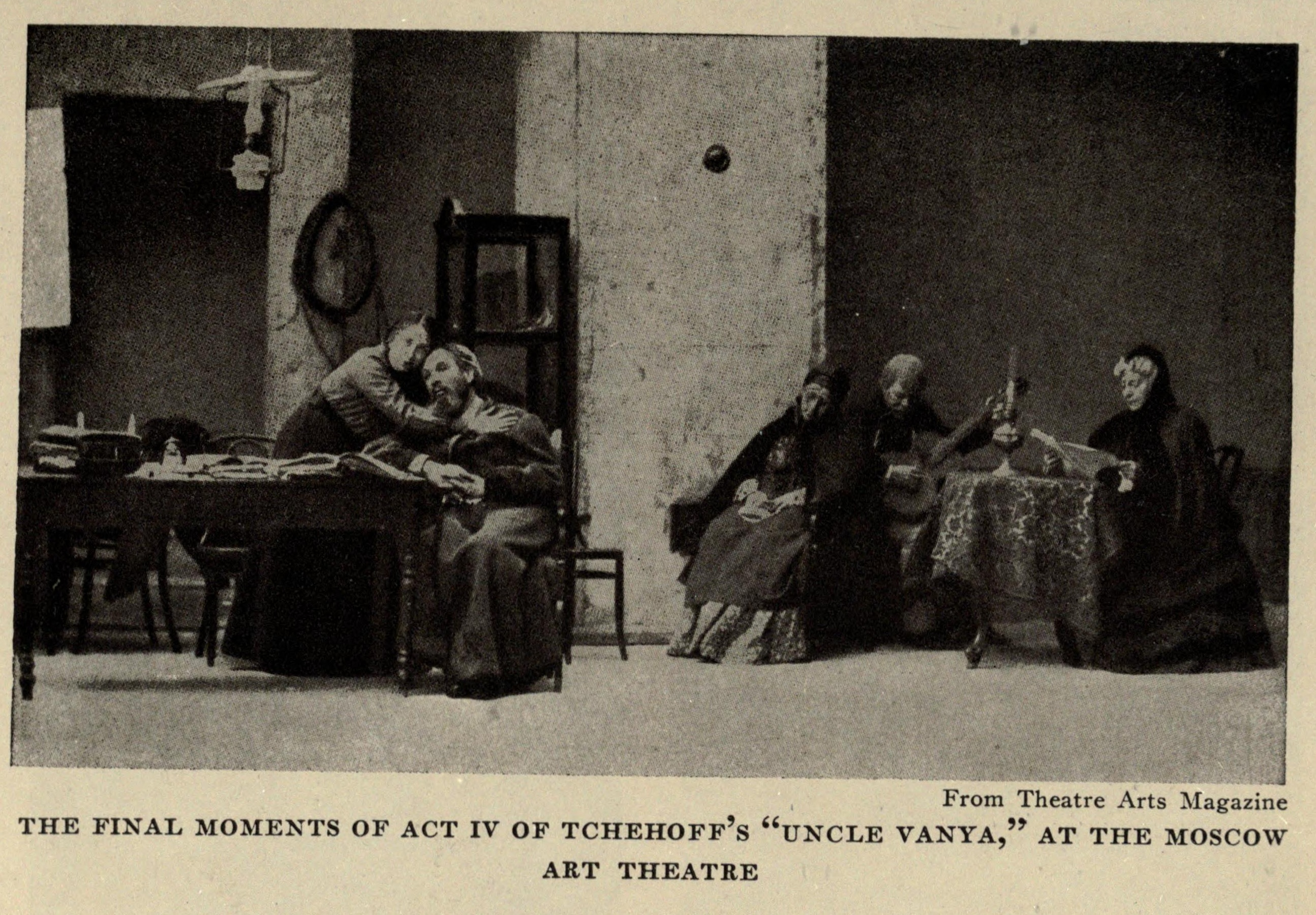 A scene from Uncle Vanya by Chekhov